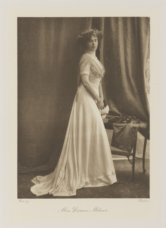 Doreen Maud (née Milner), Marchioness of Linlithgow by Bassano Ltd photogravure, published 1909 8 5/8 in. x 6 1/8 in. (220 mm x 155 mm) paper size Purchased, 1975 Photographs Collection NPG Ax161369